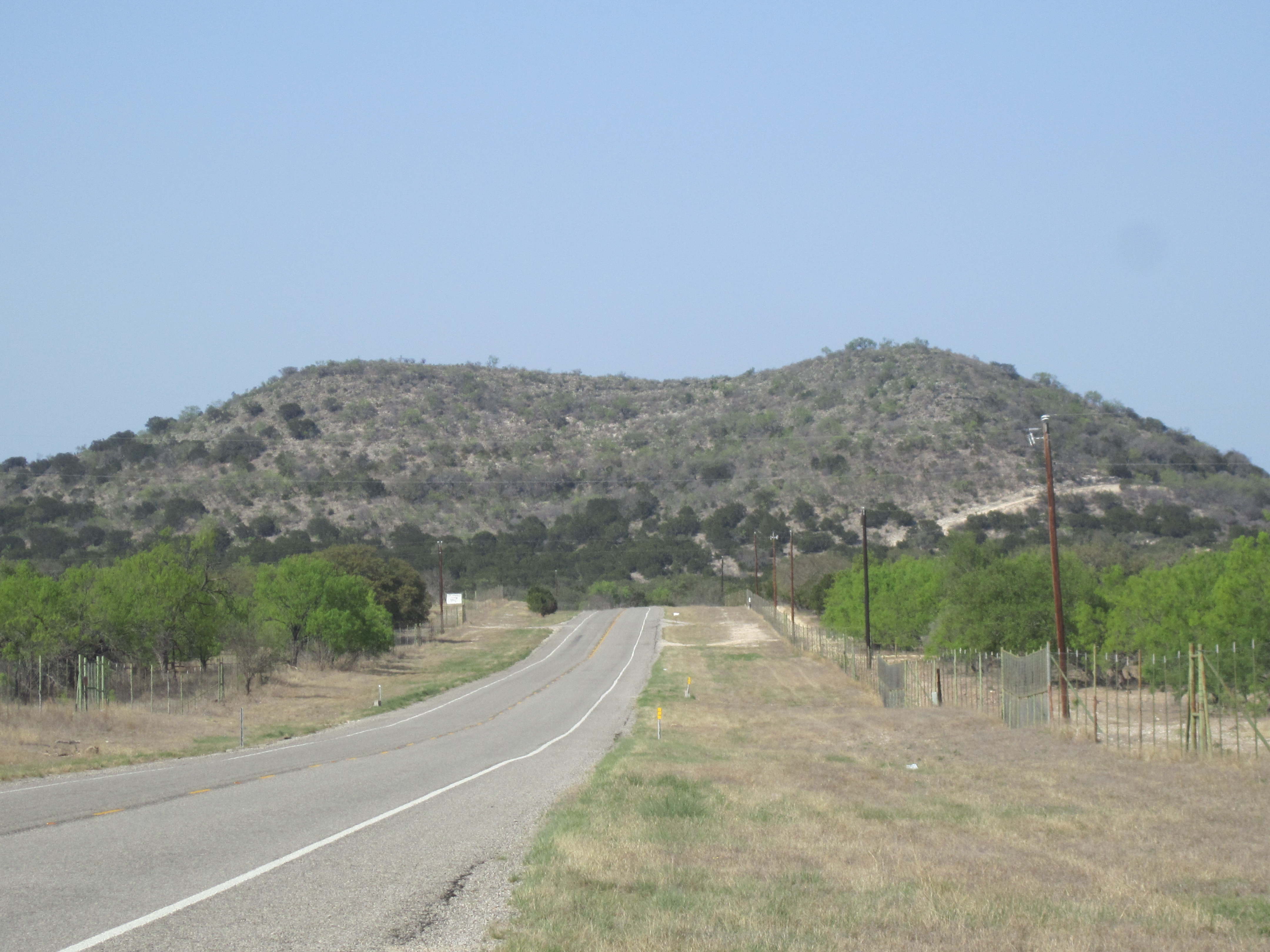 I took photo with Canon camera on TX Hwy. 55 in northwestern Uvalde County.